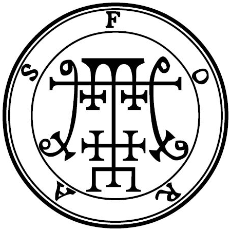 Foras seal, THE BOOK OF THE GOETIA OF SOLOMON THE KING (1904)